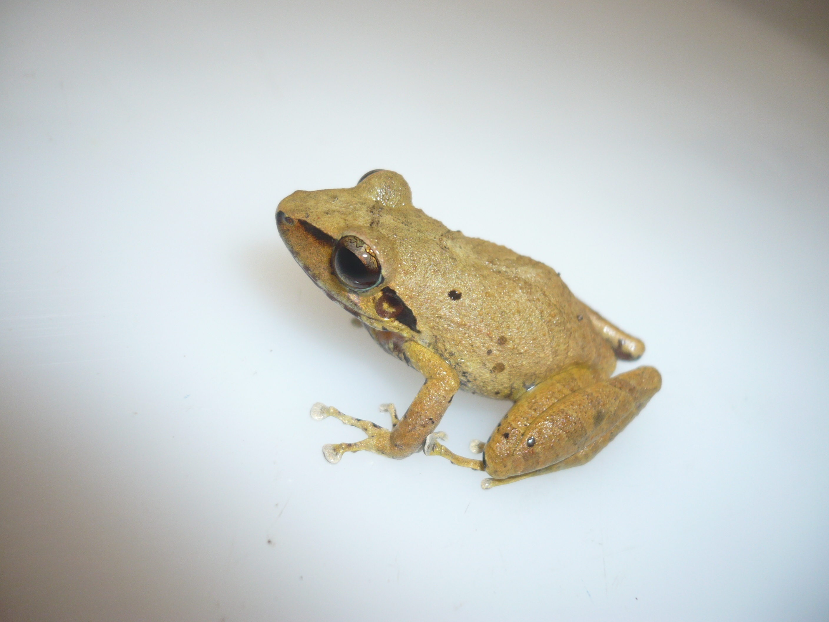 Pristimantis reichlei in Madre de Dios (Peru). Breeding male.